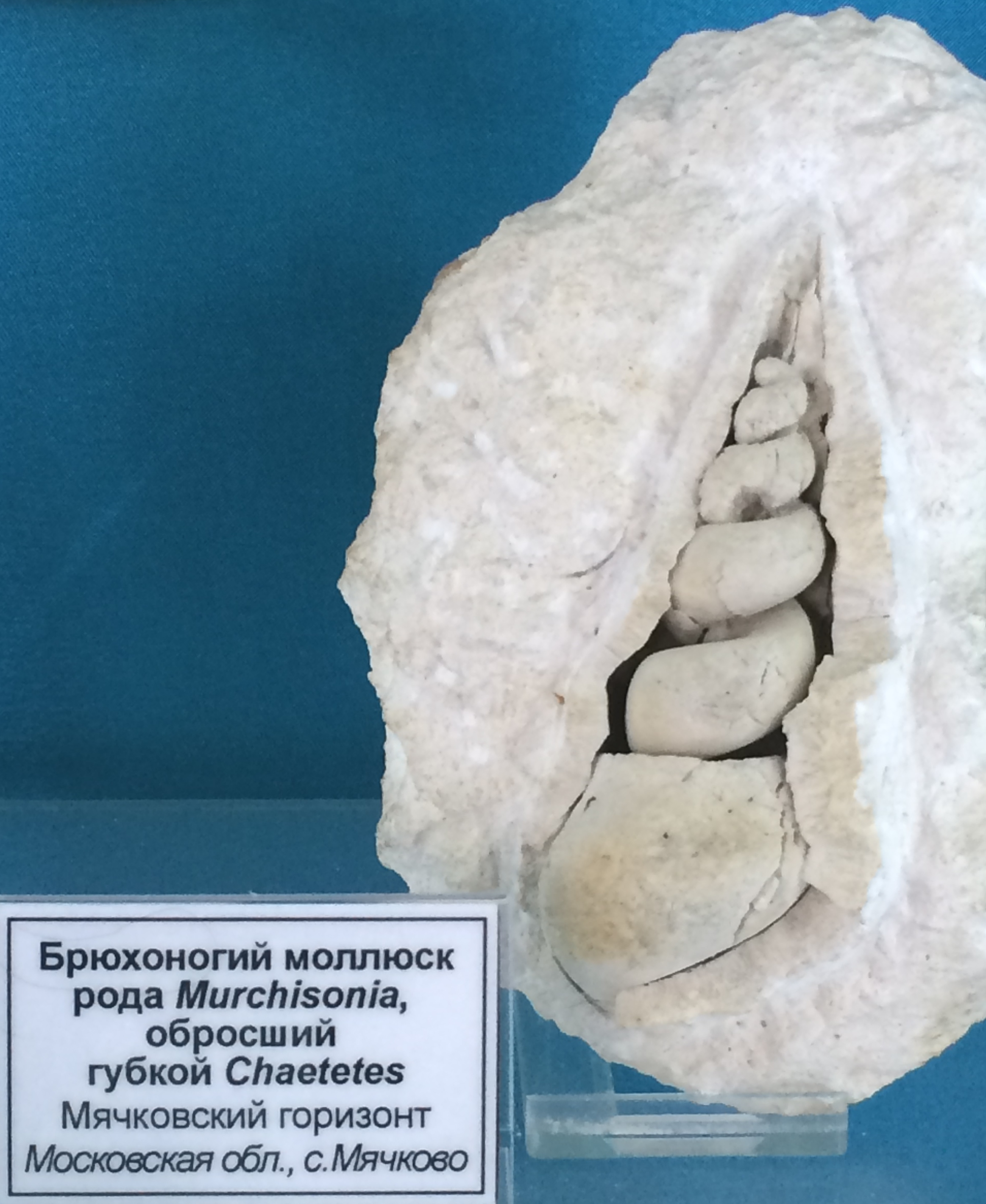 Murchisonia sp., Moscow